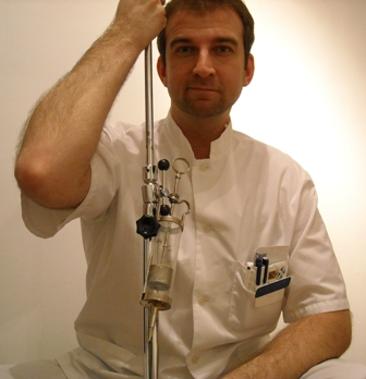 Jan Holmberg (18. helmikuuta 1975 Naantali) is a Finnish Master of Health Care, a freelance lecturer and a writer.